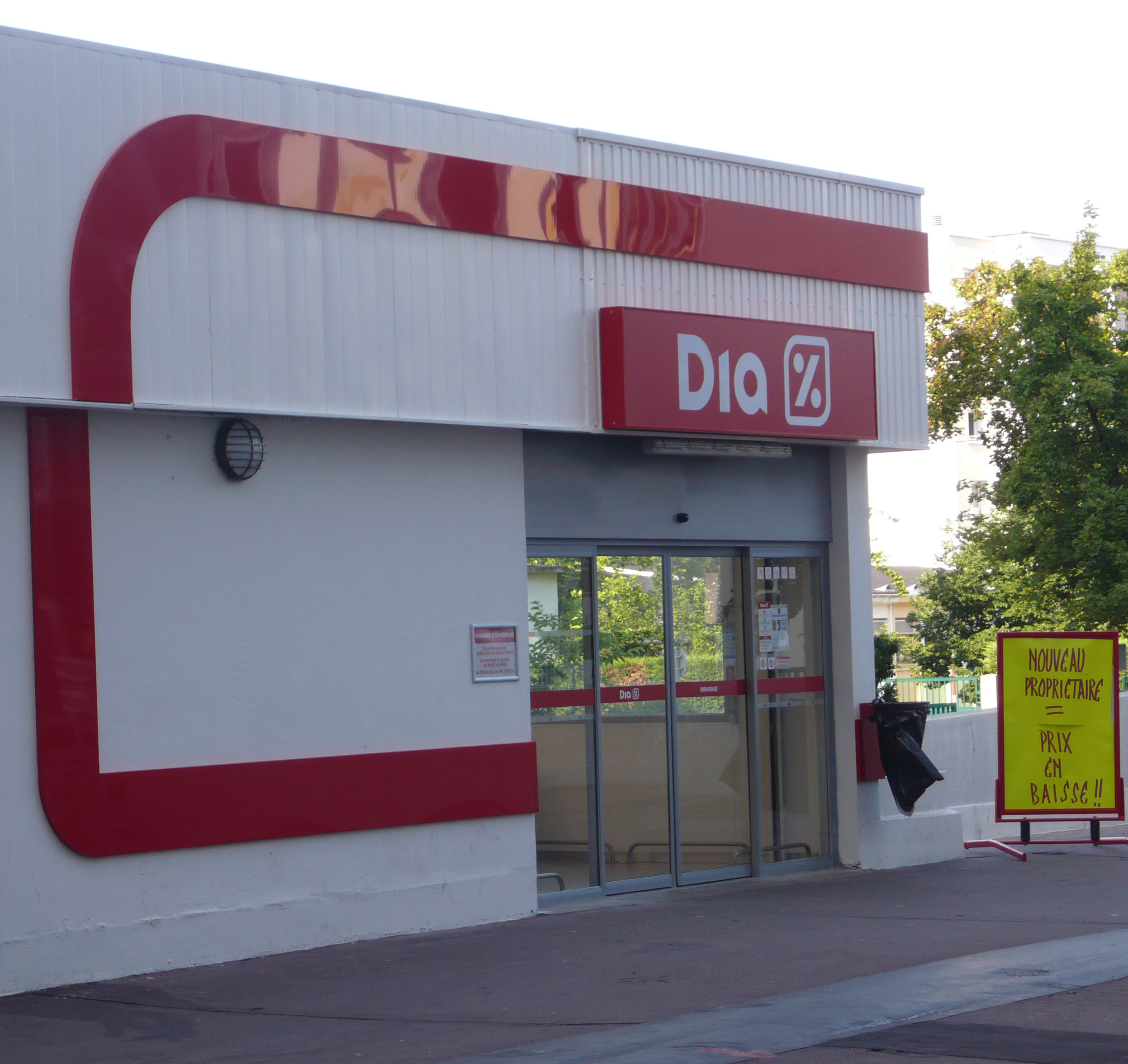 "Dia" supermarket in Villeurbanne (F-69100). The supermarket is a old "ED" hard discount, renewed in May 2011